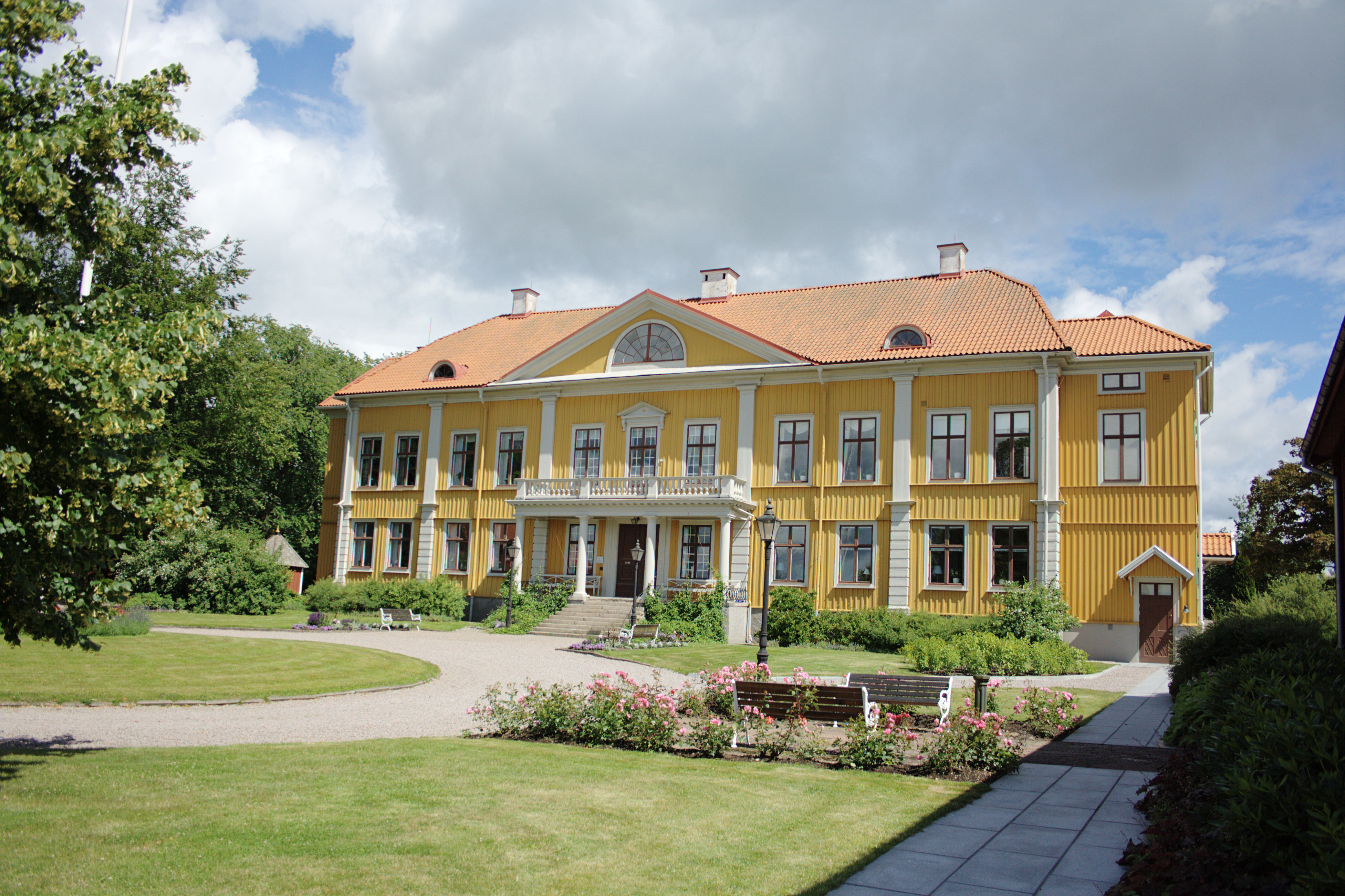 Östrabo, the bishop's residence in Växjö